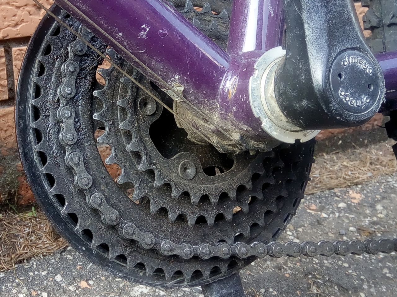 Atala Flyer quadruple gasket